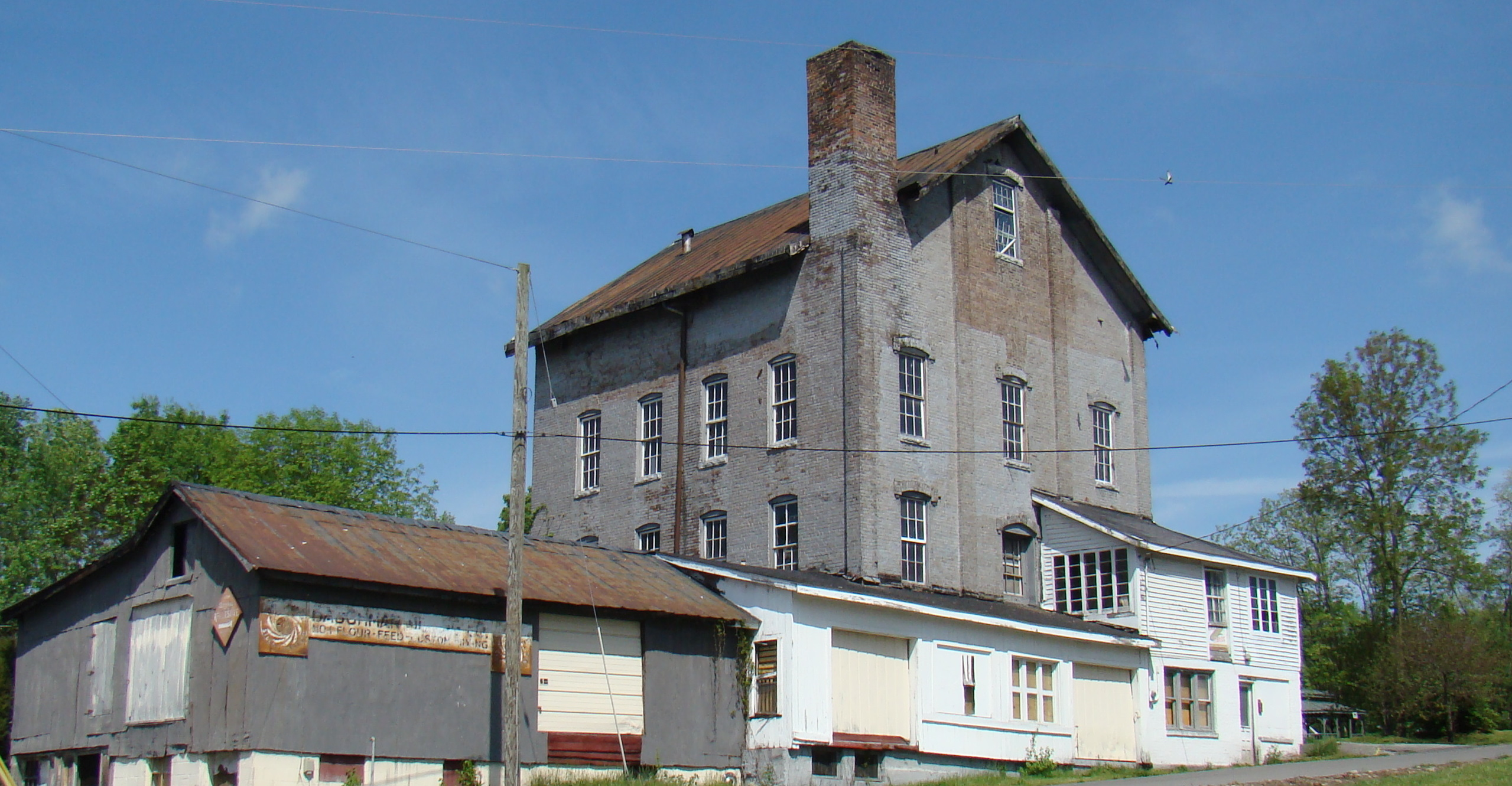 Baughman's Mill is a historic mill located in Stanford, Kentucky. The Mill, along with the adjoining L&N Railroad Depot, were added to the National Register of Historic Places in 1978.